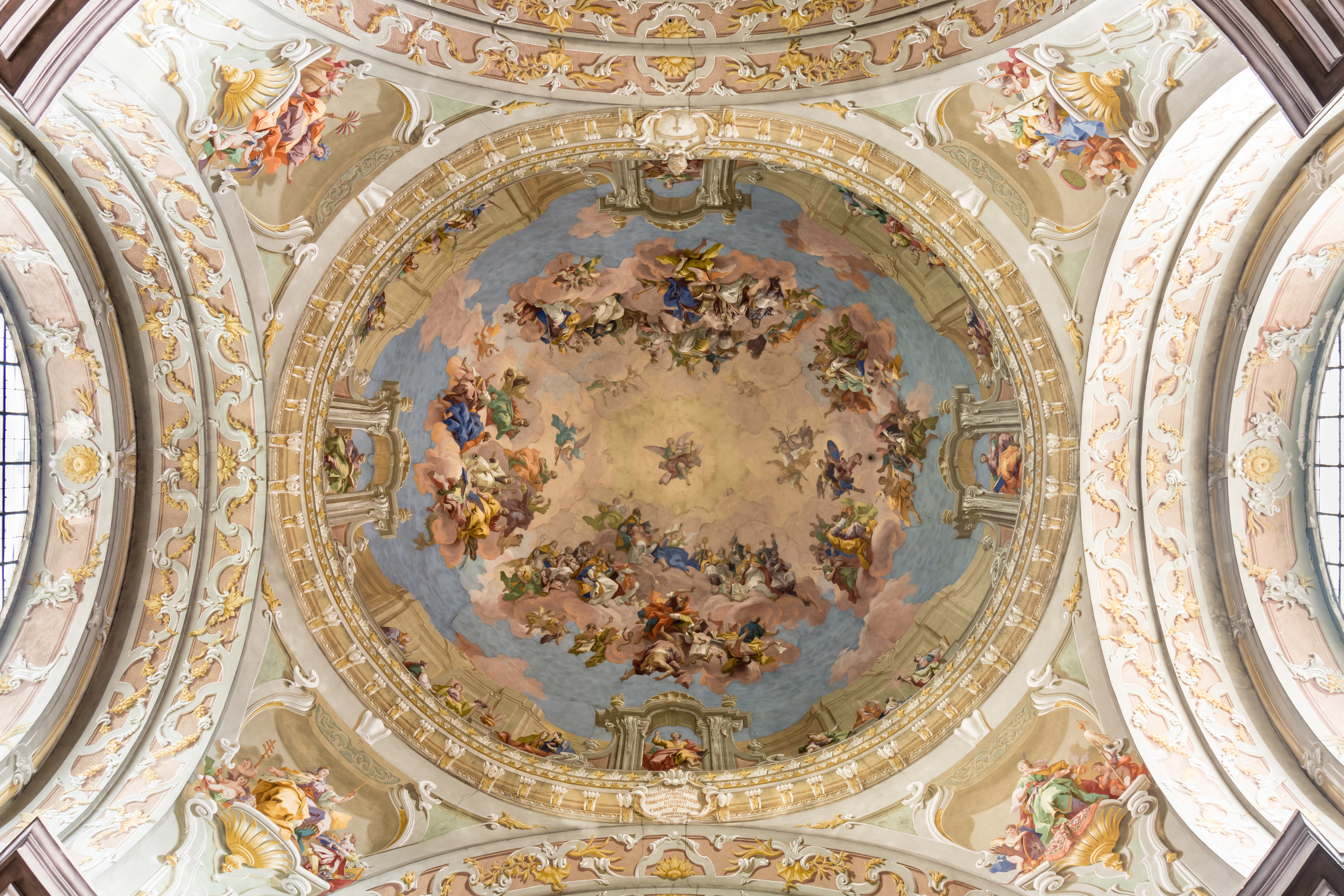 Dome fresco in the Herzogenburg Abbey Church (Lower Austria) by Bartolomeo Altomonte: The Apotheosis of the Holy Church by the Order of Saint Augustine